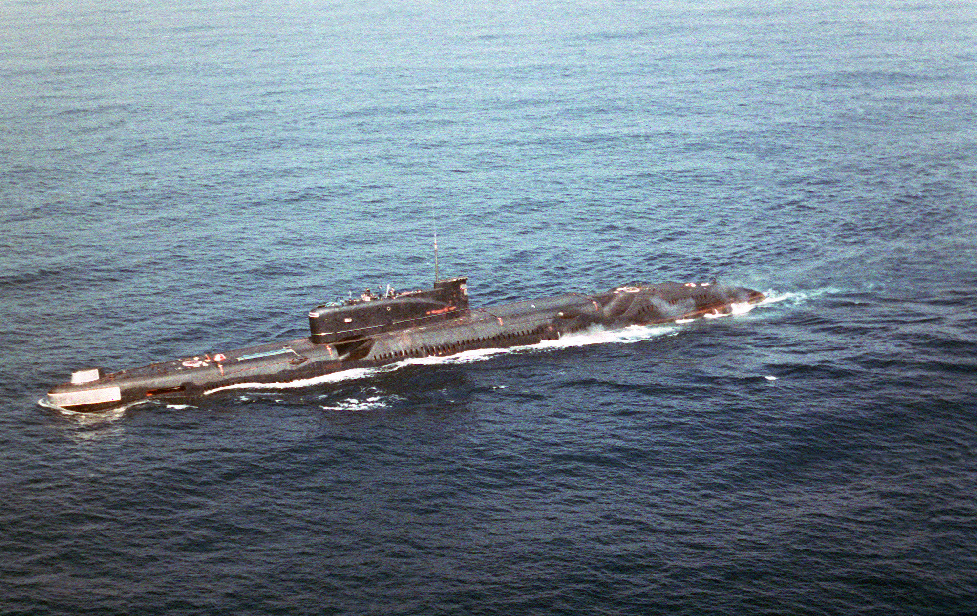 A port bow view of a Soviet Juliett class guided missile submarine.